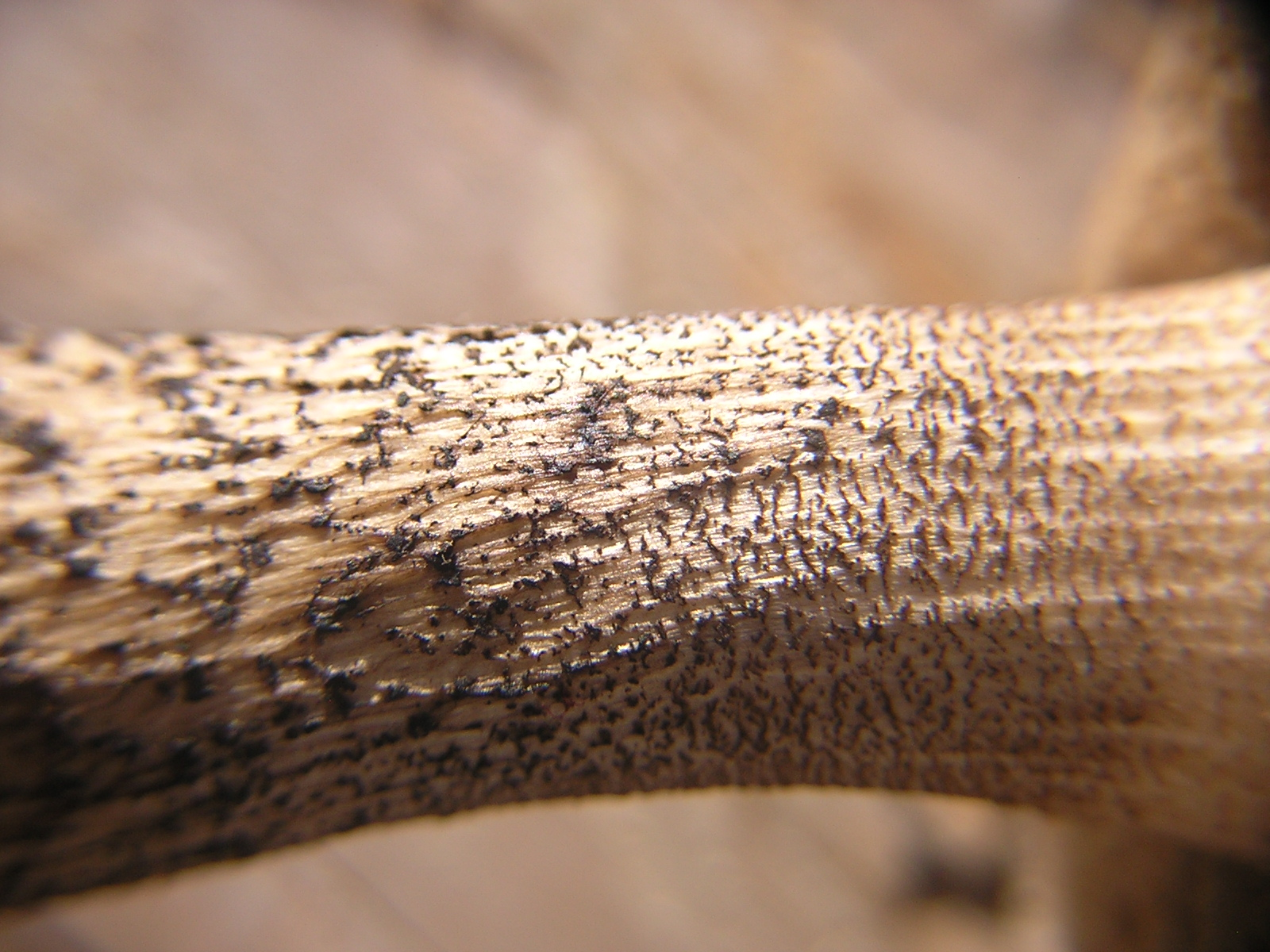 Leccinum sp. Gray Location: Kalatope wildlife Sanctuary, Dalhousie, Himachal Pradesh, India For more information about this, see the observation page at Mushroom Observer.